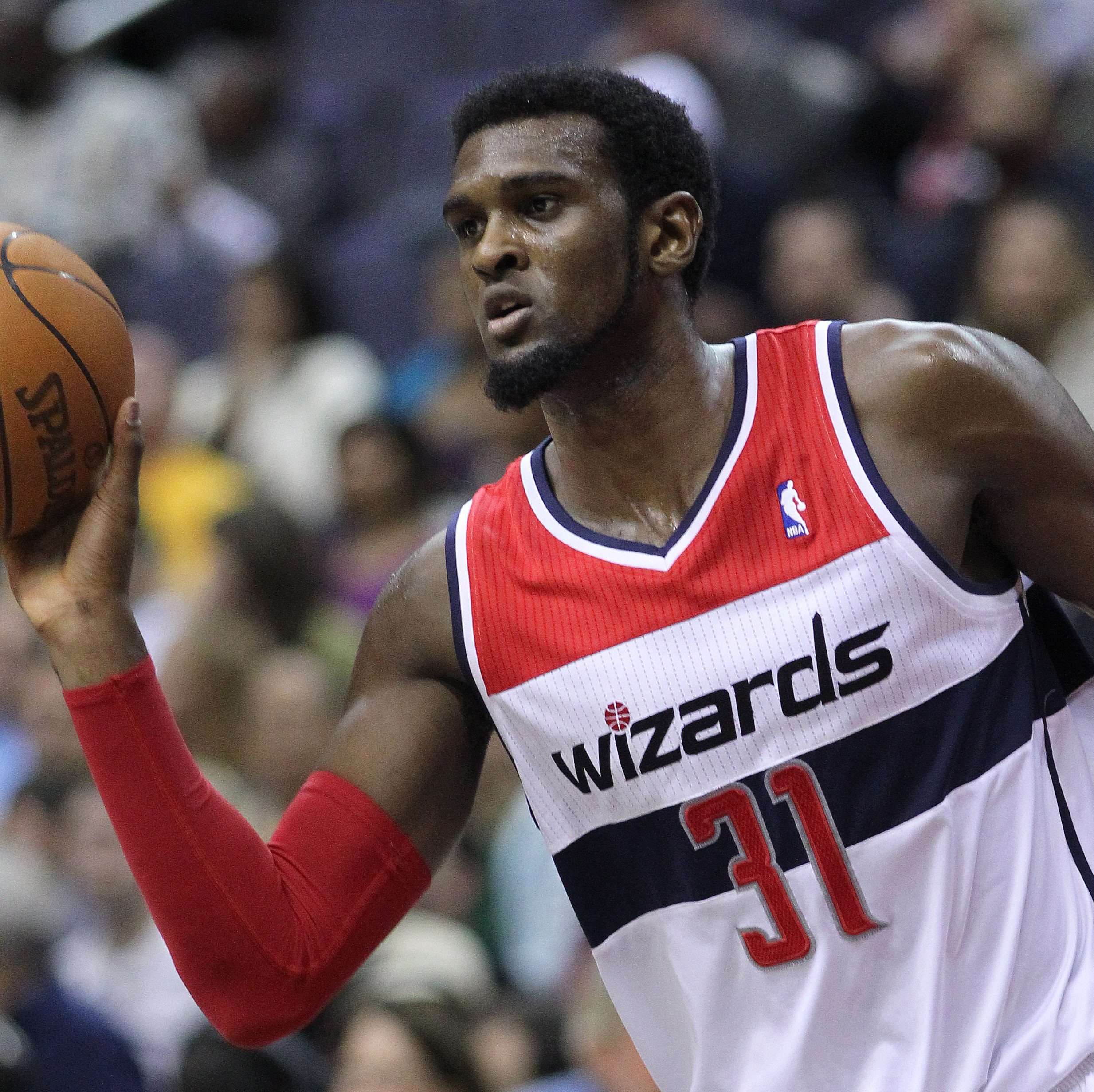 Hawks at Wizards March 24, 2012